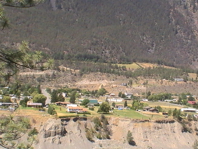 Lillooet, British Columbia, Canada.